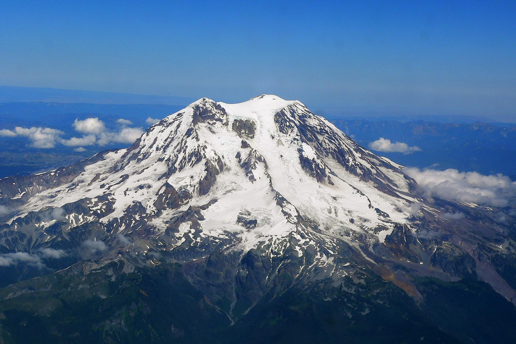 Aerial photo of Mount Rainier from the west